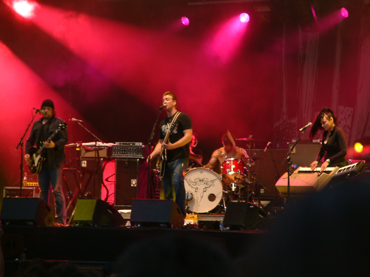 Queens Of The Stone Age Live Paris 200508